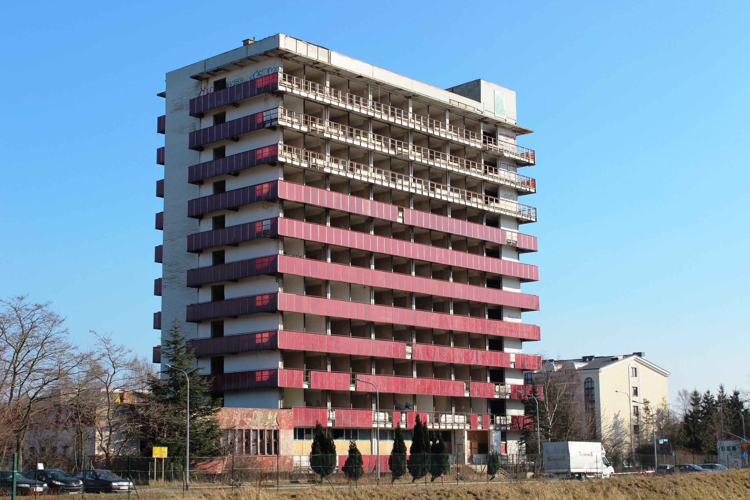 Hutnik Sanatorium in Kołobrzeg